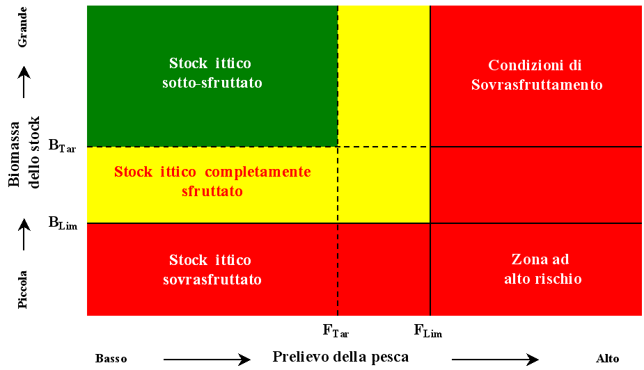 Traffic Light colour convention showing the concept of Harvest Control Rule (HCR) in fishery